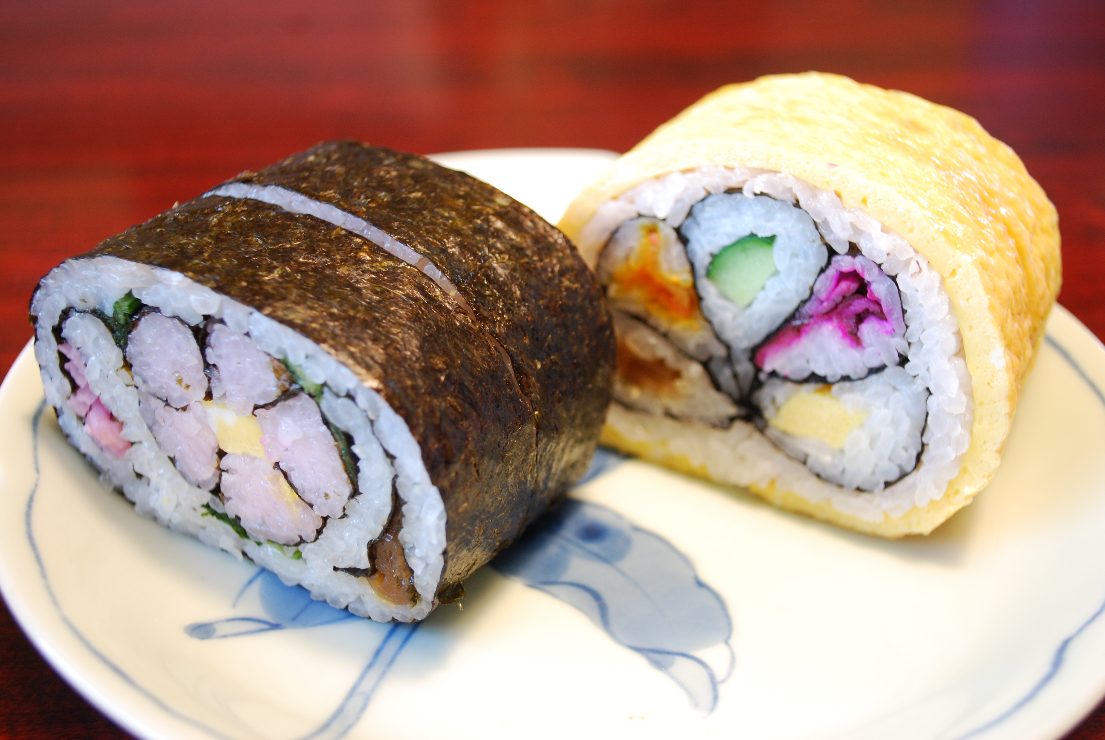 Big rolled sushi,Hutomakizushi,Katori-city,Chiba,Japan